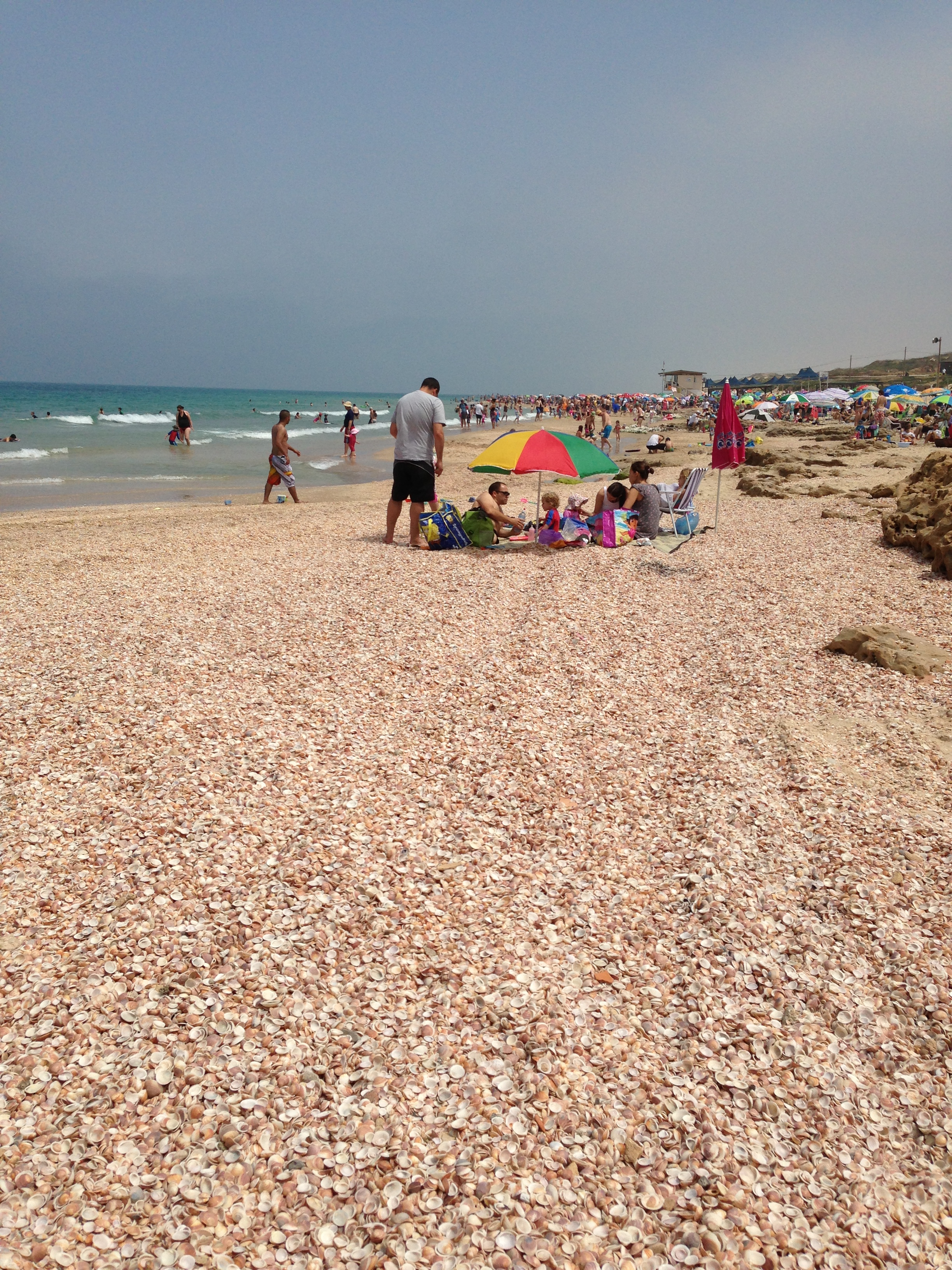 Palmachim beach,Israel